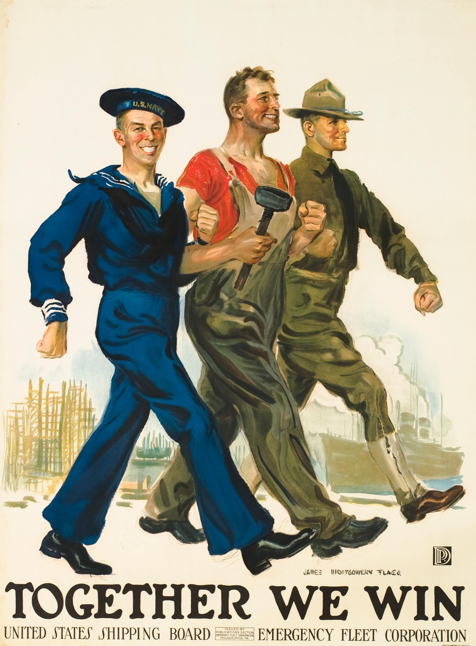 "Together We Win". First World War US propaganda poster by James Montgomery Flag.